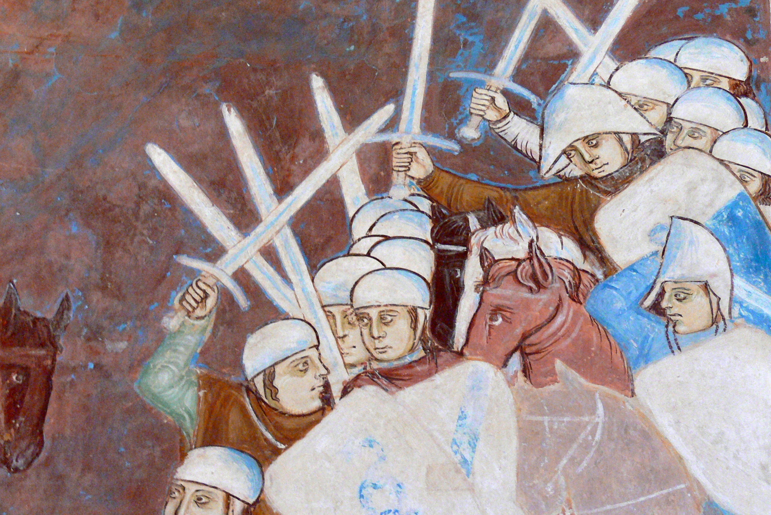 Angera castle ( Varese ). Hall of Justice - Fresco showing the battle of Desio in 1277 ( detail ).